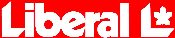 Logo of the Liberal Party in the 1960s. Cropped from the official electoral poster of the candidate Pierre Trudeau in 1968.